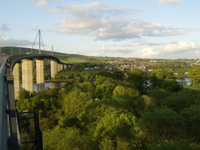 River Clyde and Old Kilpatrick from Erskine Bridge One of many stunning views the bridge has to offer.